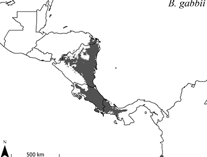 Predicted distribution for Bassaricyon gabbii based on bioclimatic models. To create these binary maps we used the average minimum training presence for 10 test models as our cutoff. In addition, we excluded areas of high probability that were outside of the known range of the species if they were separated by unsuitable habitat. Helgen K, Pinto C, Kays R, Helgen L, Tsuchiya M, Quinn A, Wilson D, Maldonado J (2013). "Taxonomic revision of the olingos (Bassaricyon), with description of a new species, the Olinguito". ZooKeys 324: 1--83. Pensoft Publishers. Retrieved on 2013-08-15.